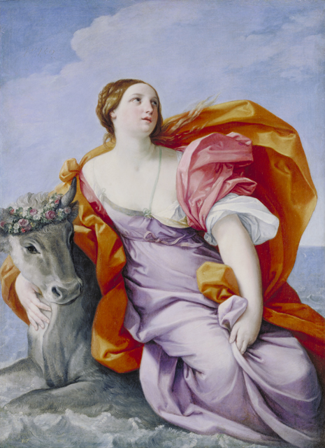 Jupiter and Europa